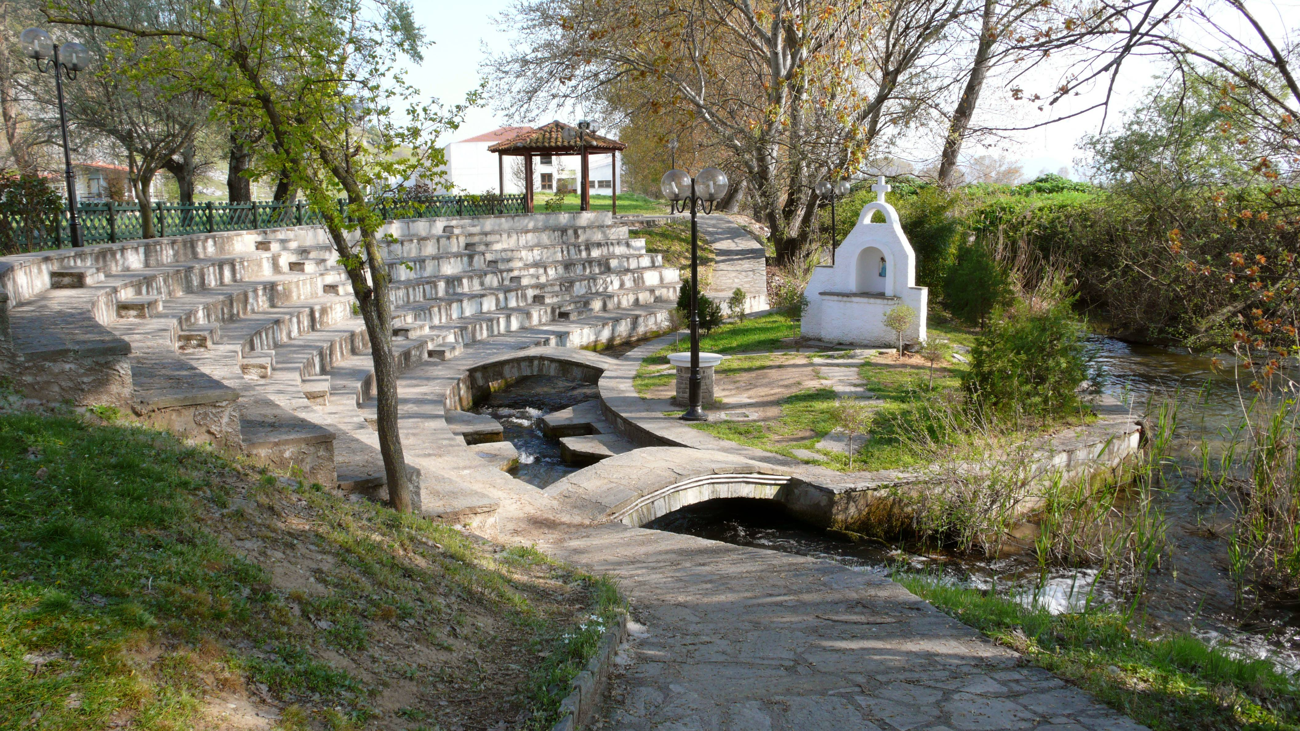 baptismal in the creek, Lydia